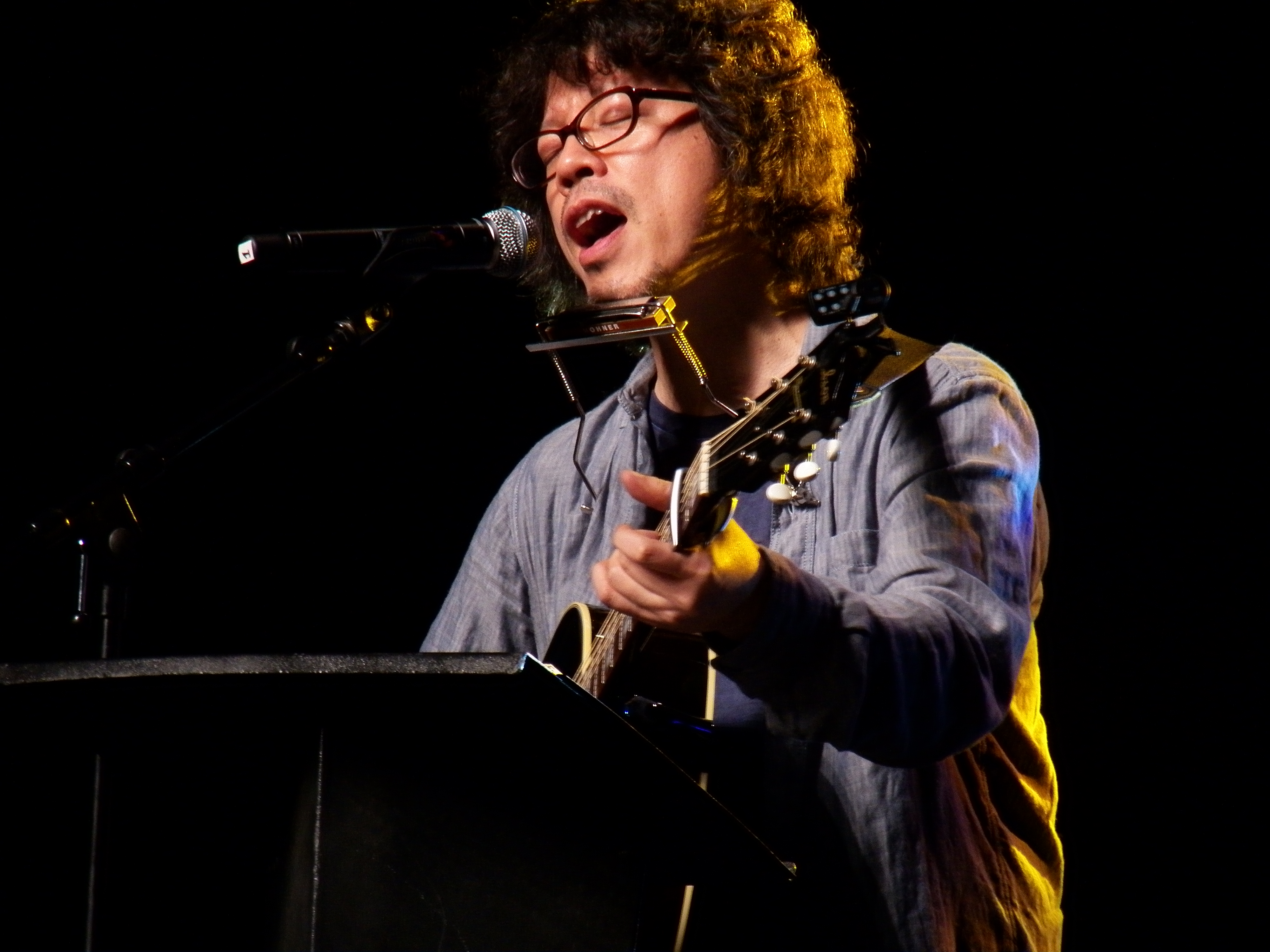 Conference at Japan Expo, Paris. Singing a Bob Dylan song.